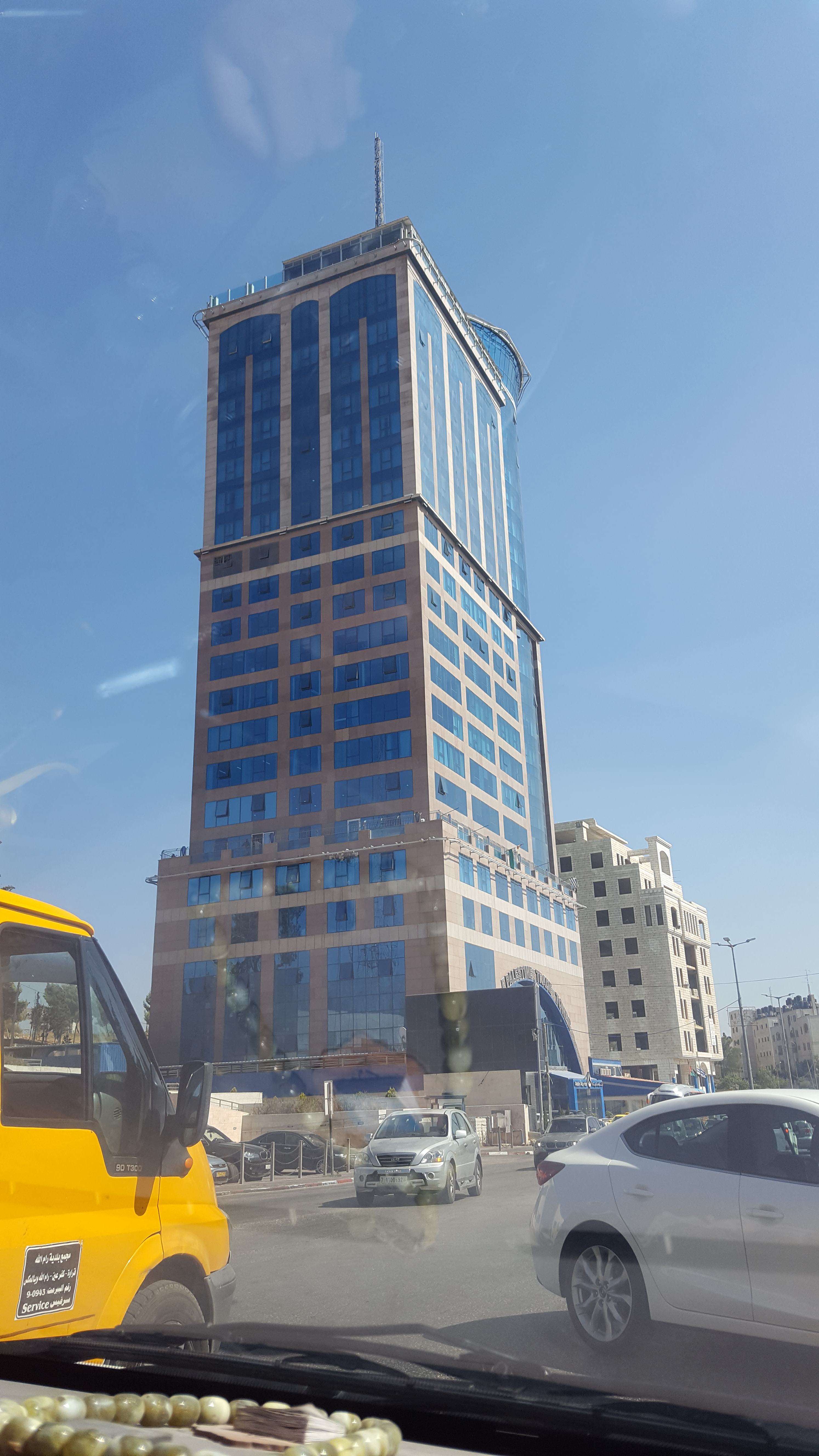 Palestine Trade Tower, Ramallah